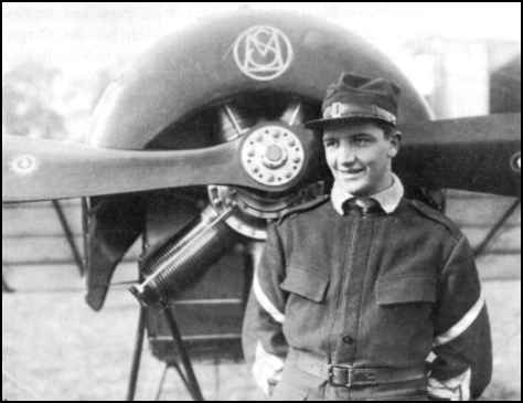 Alfed Comte in August 1914